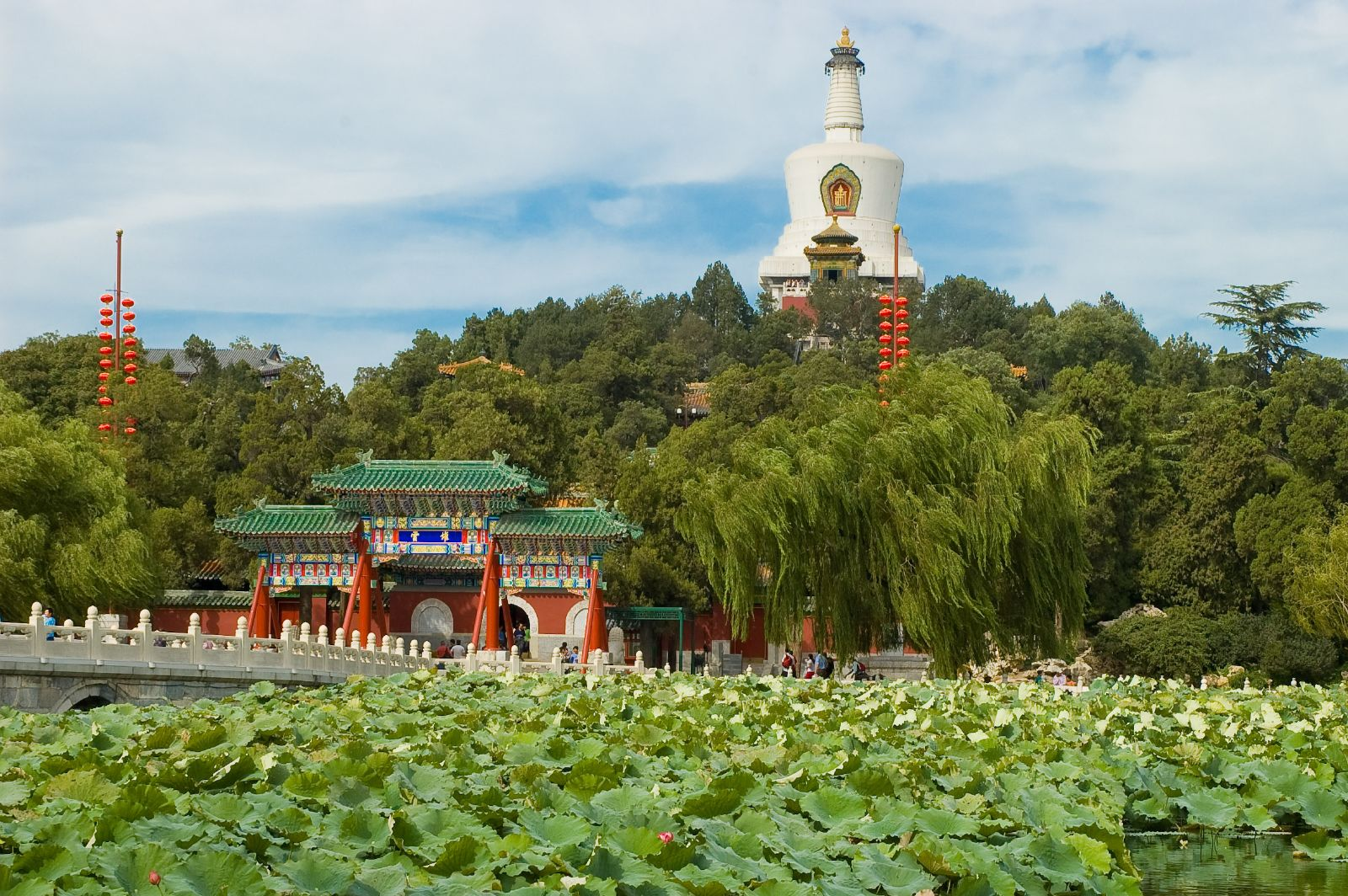 The Beihai Park in central Beijing